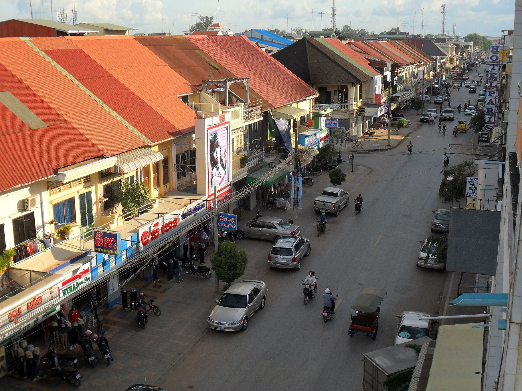 A part of Road No 3. in the downtown of Battambang, Cambodia